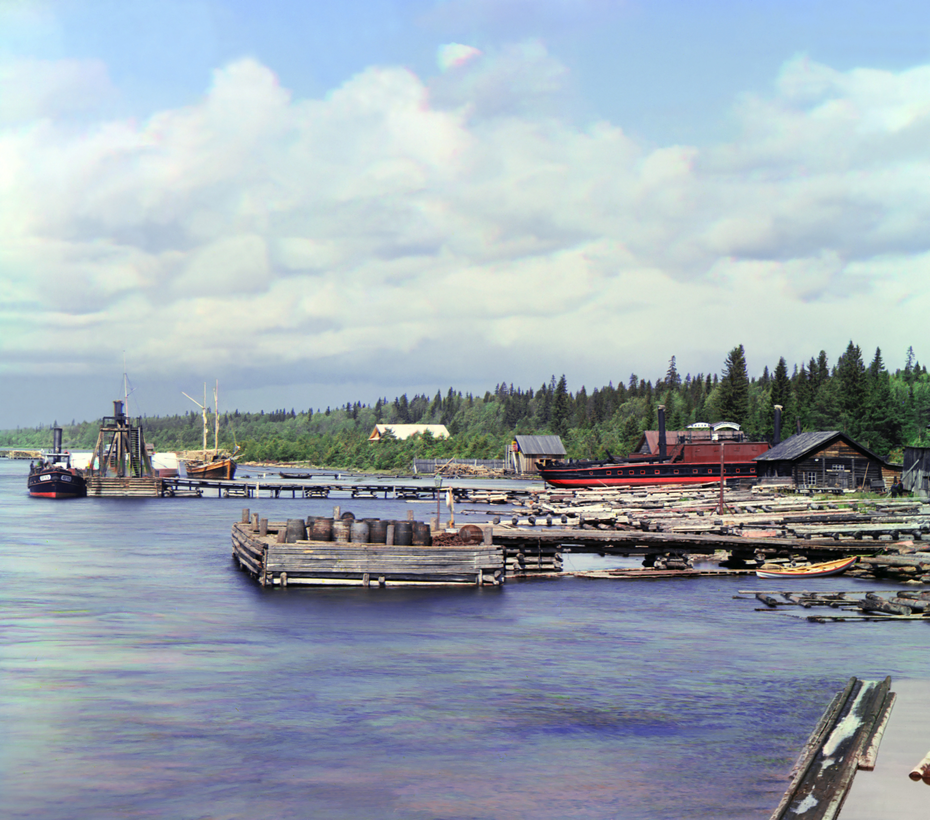 Original Description: Kareshka boat yard. [Russian Empire].